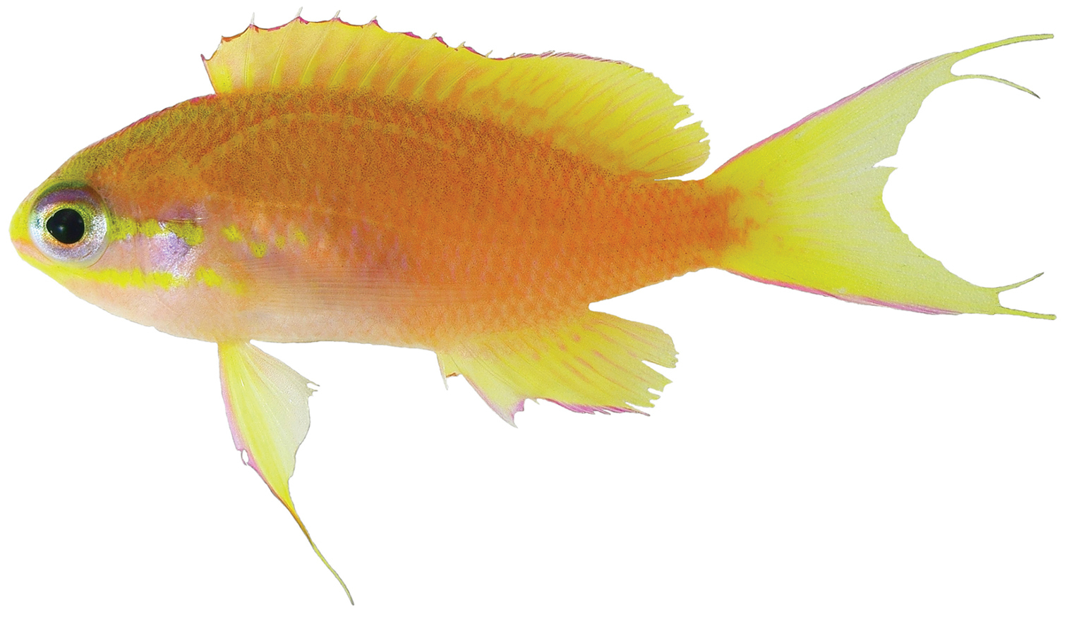 Paratype of Tosanoides obama (USNM 440451), collected at a depth of 92 m off Pearl and Hermes Atoll, Northwestern Hawaiian Islands. immature.